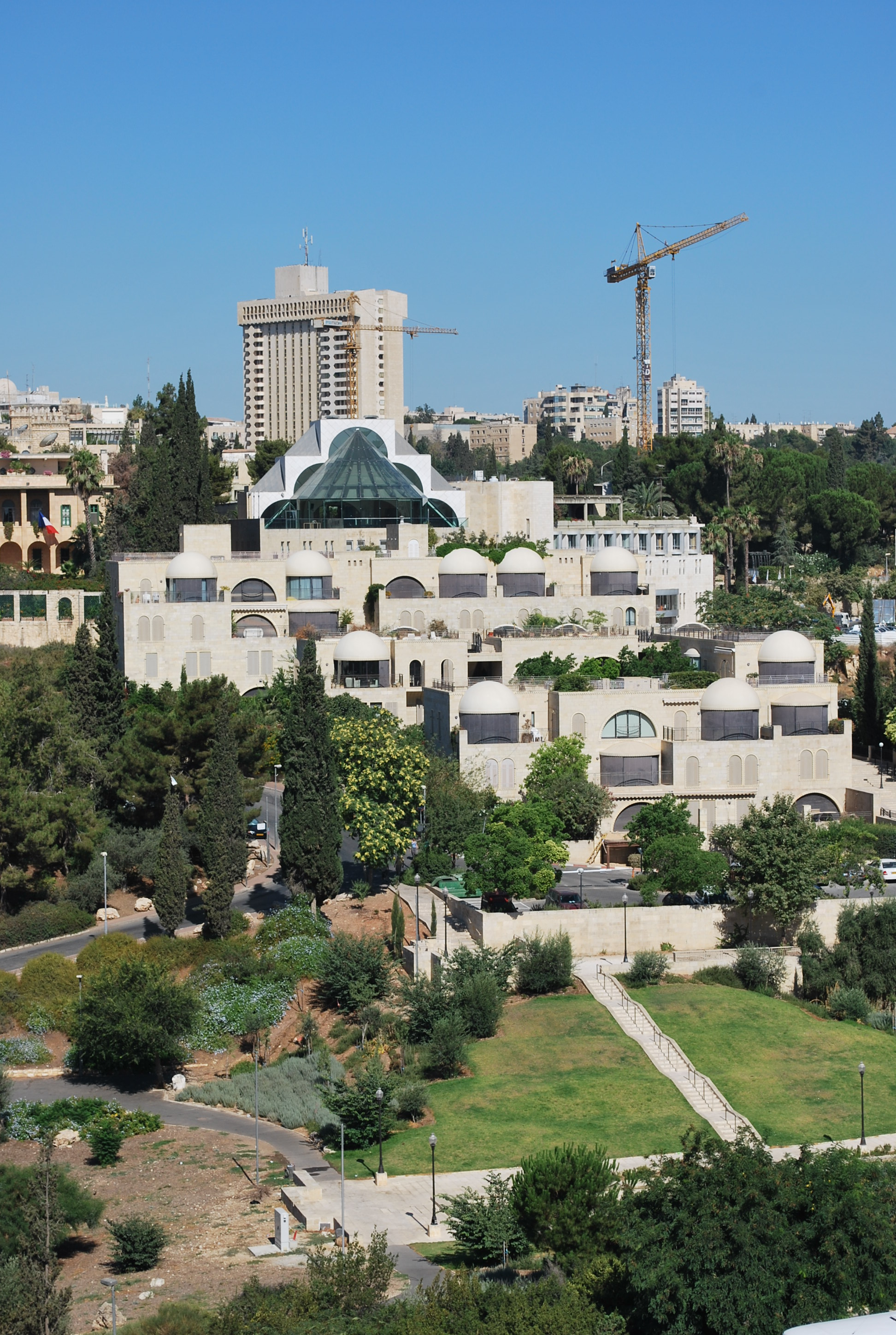 Hebrew Union College As viewed from the Old City Wall. Jerusalem